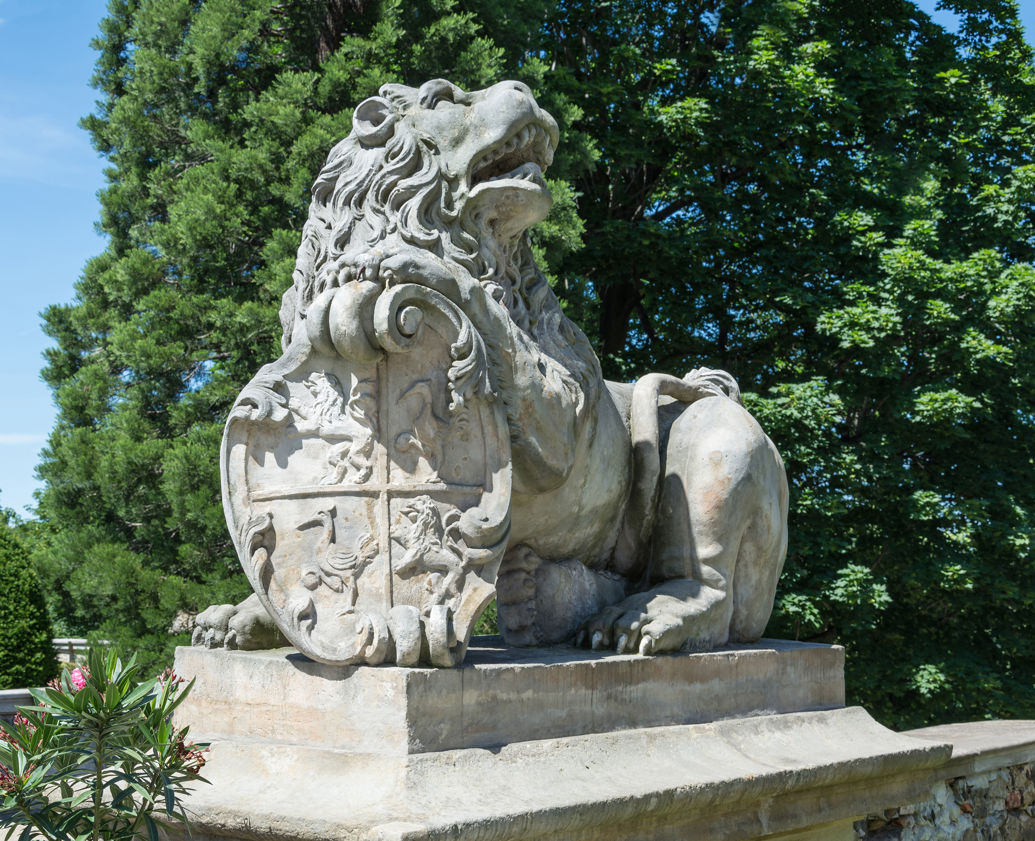 Książ Castle, lions sculpture with coat of arms of House of Ascania Ta fotografia przedstawia zabytek wpisany do rejestru zabytków pod numerem ID 598176